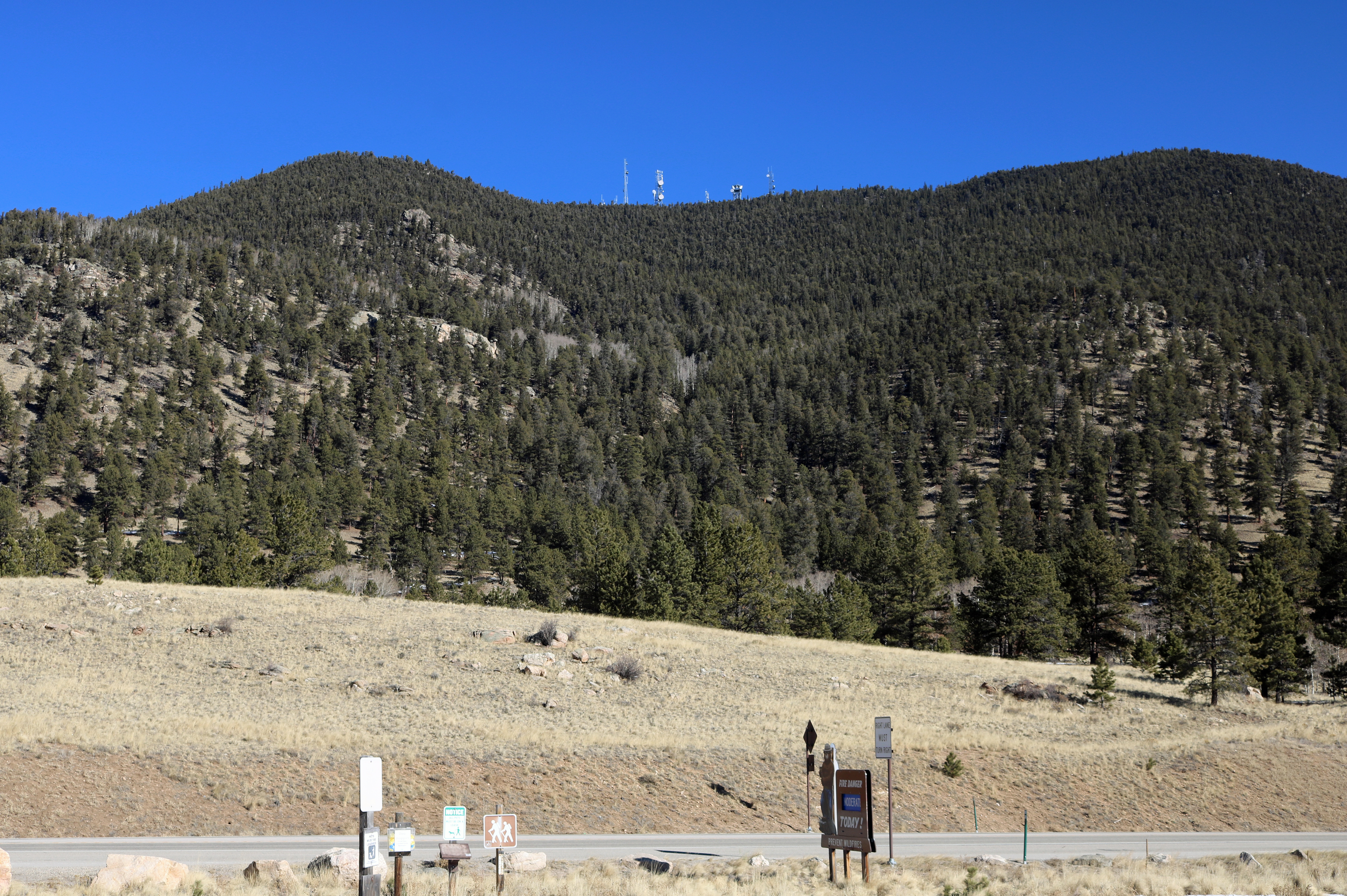 Badger Mountain, elevation 11,295 feet (3,443 m), located in Park County, Colorado.